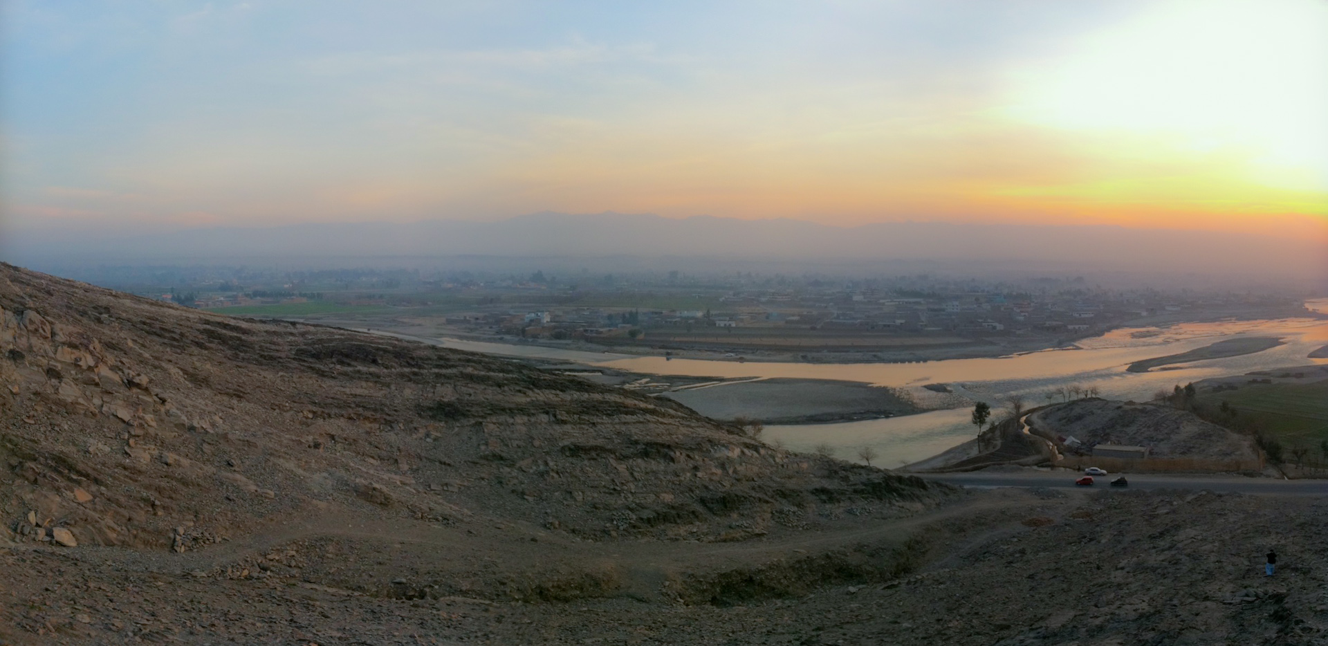 Hiking north of the Kabul River.